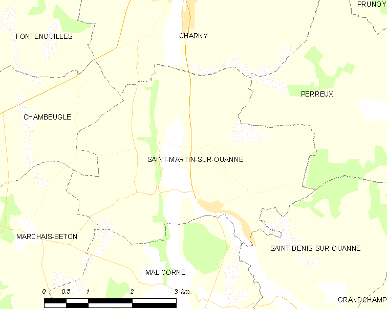 Map of French municipality Saint-Martin-sur-Ouanne